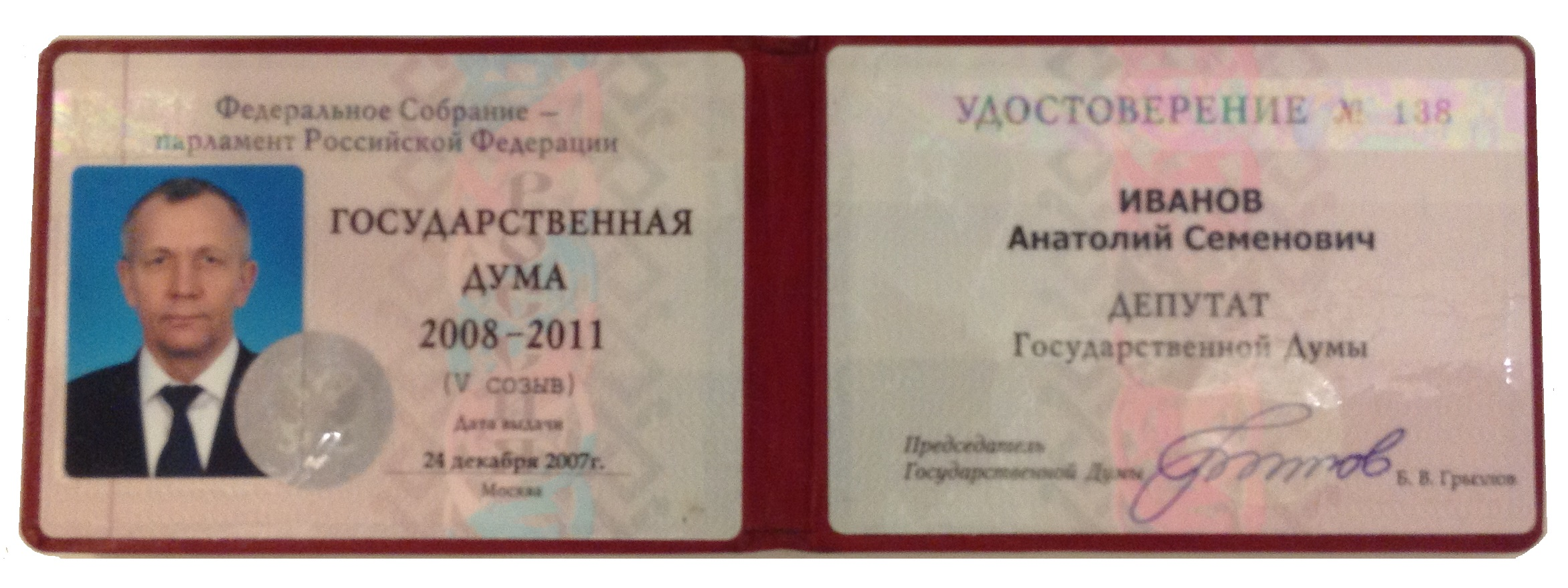 Identity cards - Document of the Deputy of the lower chamber of the Russian Parliament (5 calling)